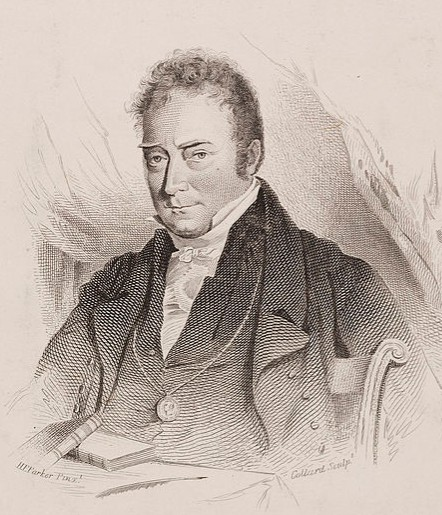 Portrait of William Martin (1772–1851), English eccentric and self-described philosopher